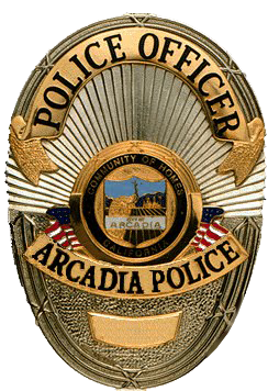 Badge of the Arcadia Police Dept.